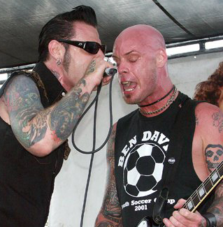 Christian Martucci and Charlie Paulson of Black President @ The Vans Warped Tour